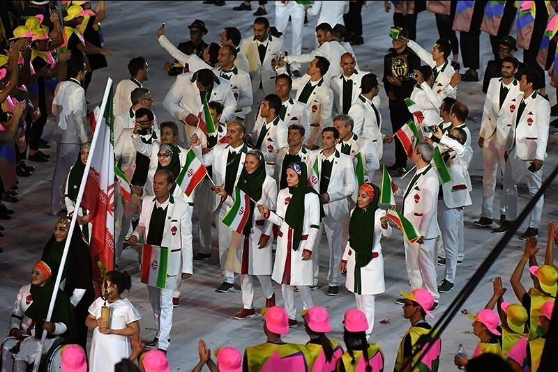 2016 Summer Olympics opening ceremony - photo news agency Tasnimnews